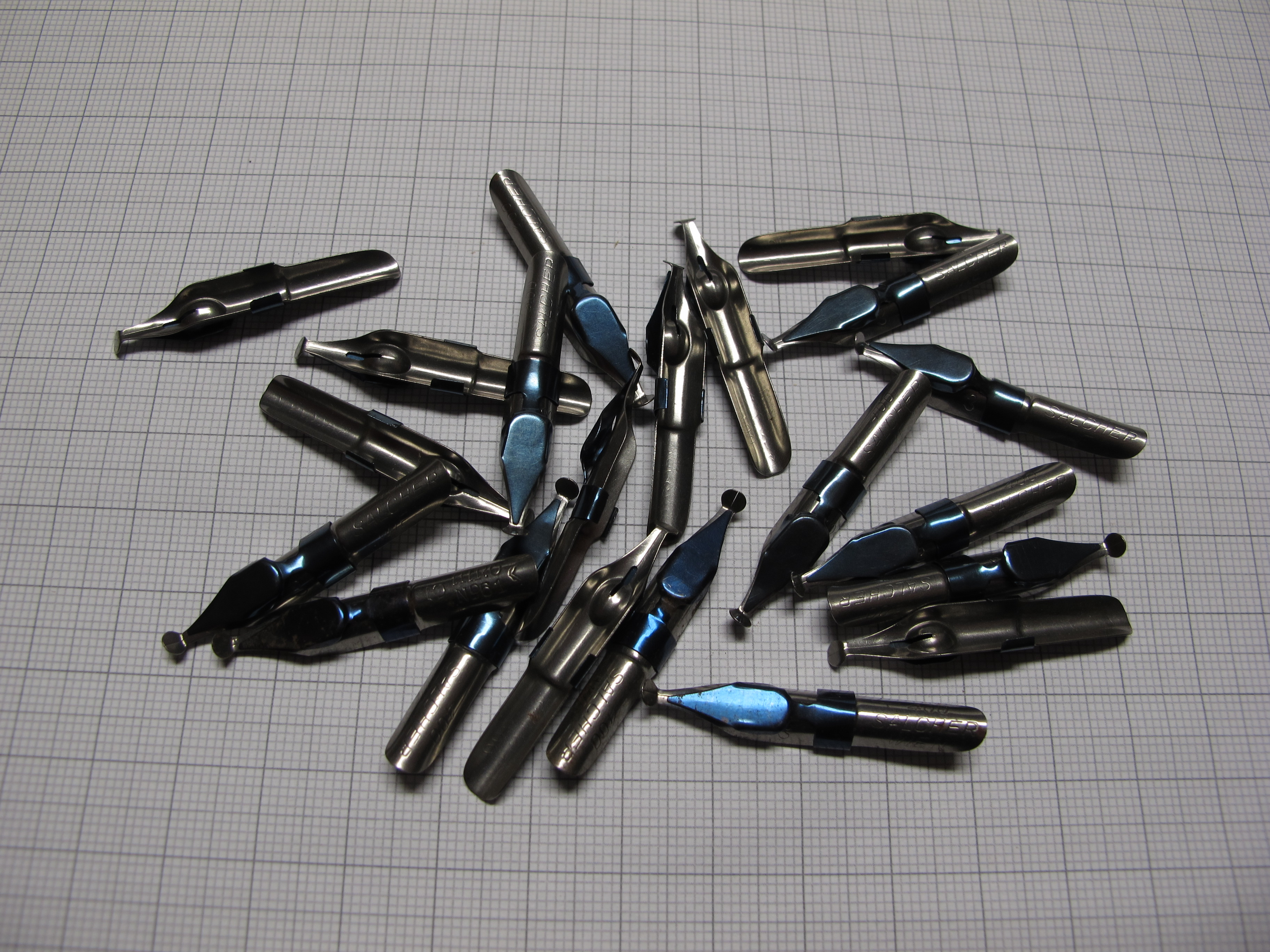 Dip pens Salcher Vienna